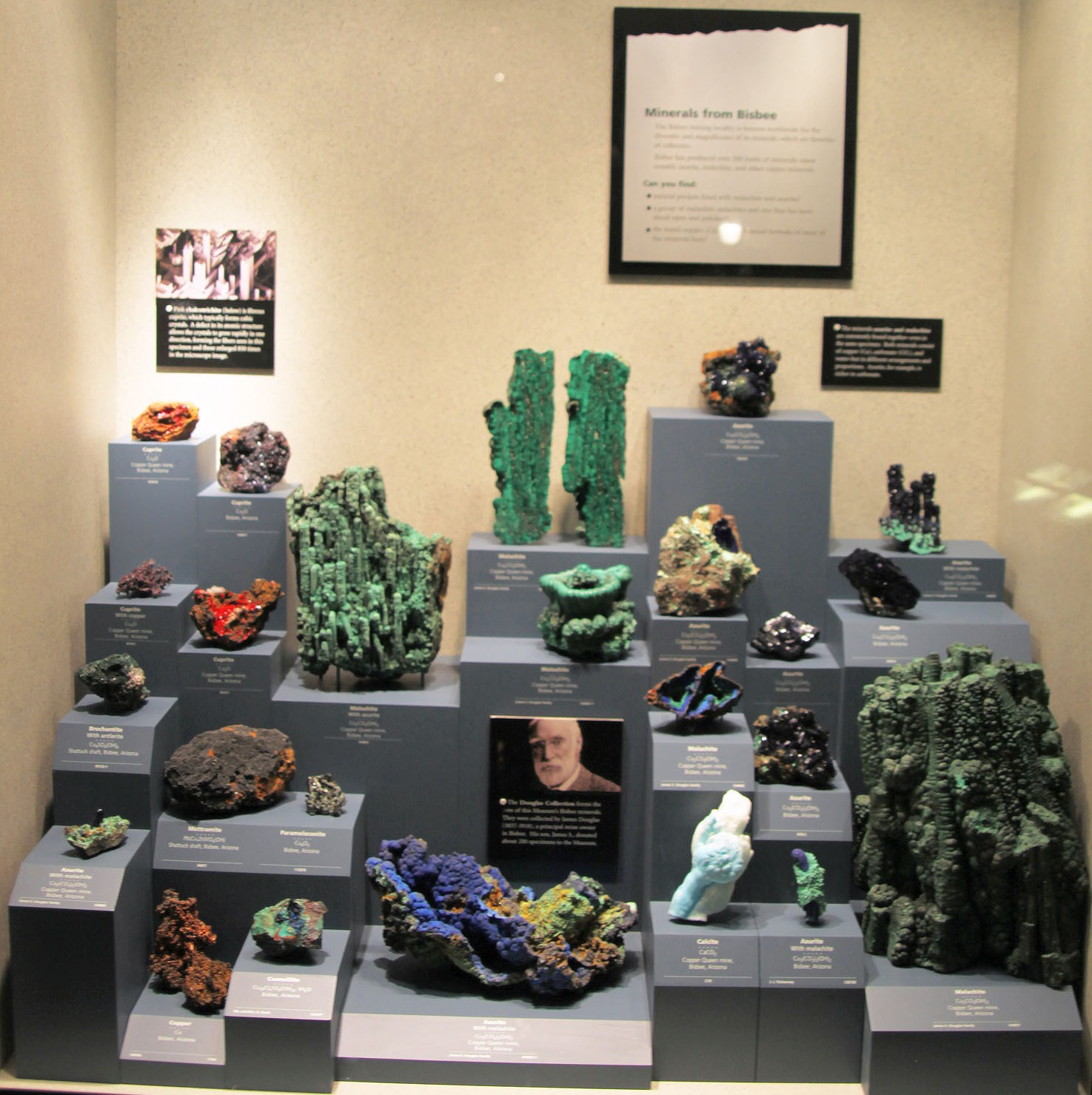 This case contains specimens from the Copper Queen mine, from the collection of Dr. James Douglas. They were donated to the Smithsonian by his son, "Rawhide Jimmy" Douglas.